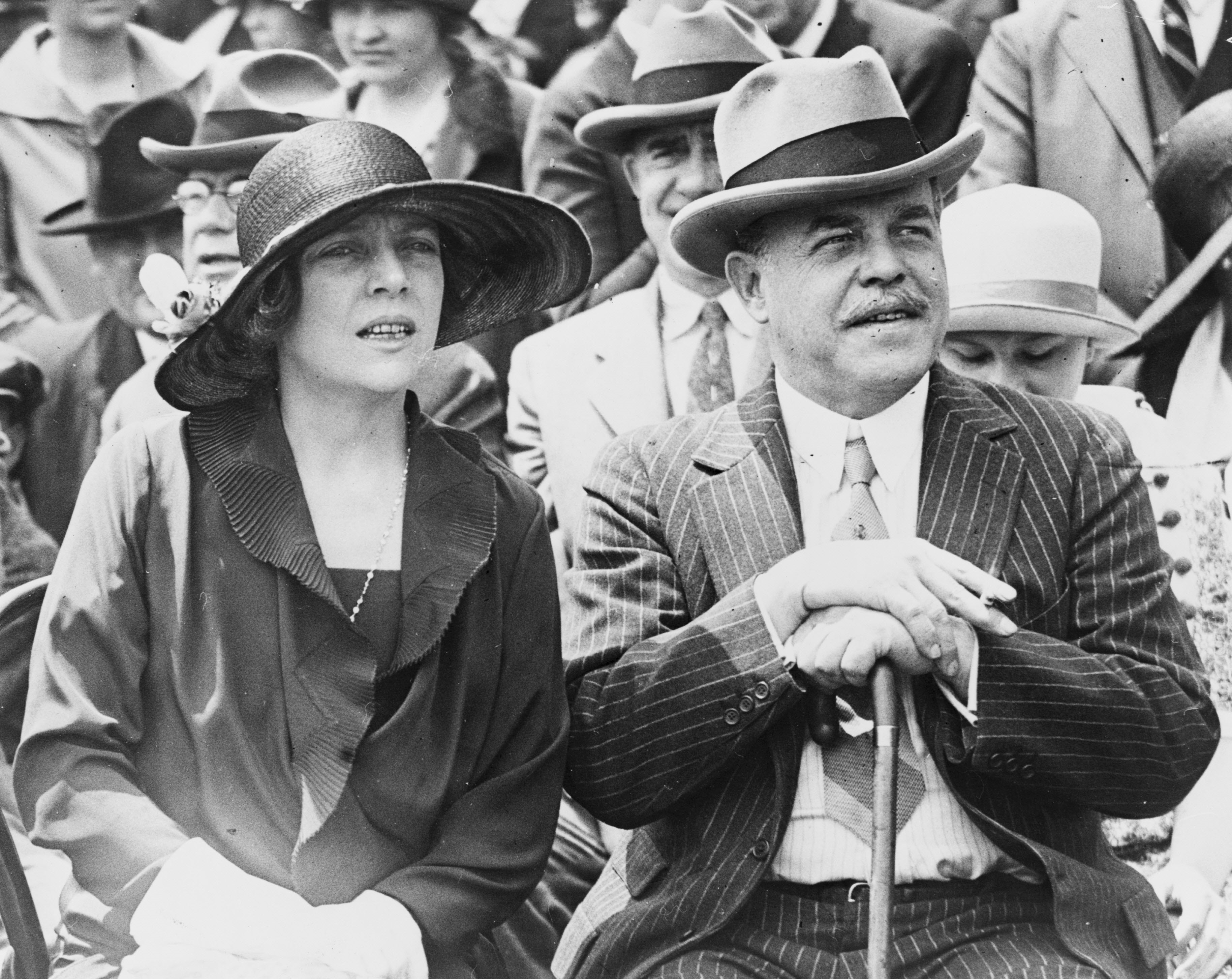 Nicholas Longworth and Alice Roosevelt Longworth "snapped on the Capitol steps today, as they watched the Indians from Arizona put on their snake dance."